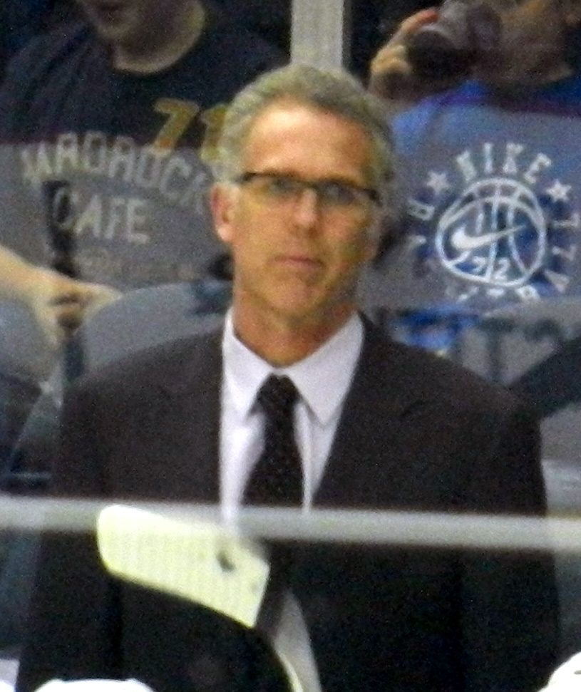 Craig MacTavish coaching the Chicago Wolves during the 2011-12 AHL season